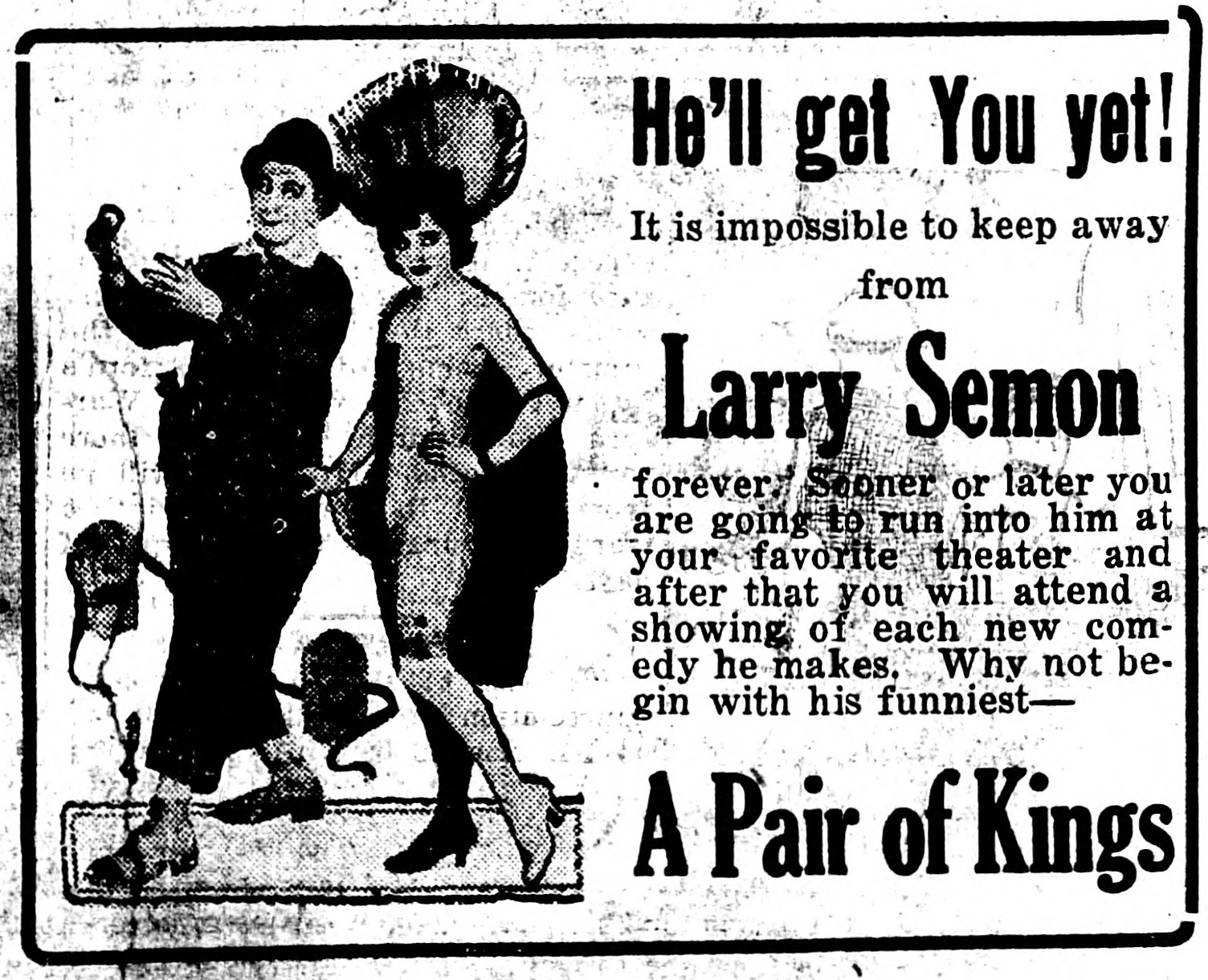 A Pair of Kings is a 1922 American silent comedy film featuring Oliver Hardy. This is a newspaper advert for the film.